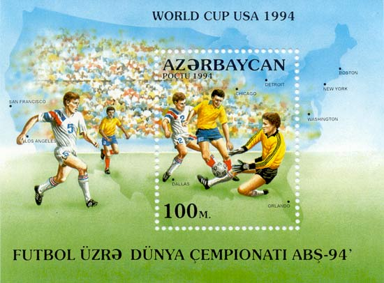 Stamp of Azerbaijan